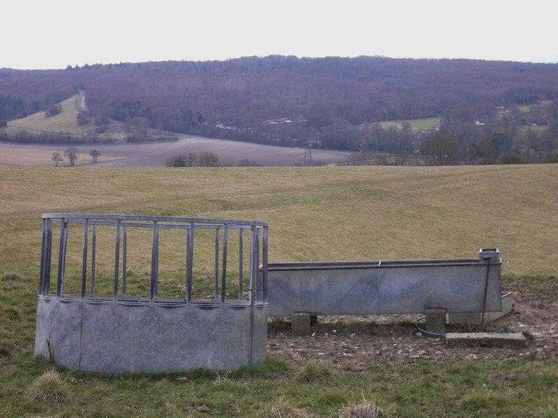 Manger on Levin Down The manger and trough were not in use on this day as there were no livestock on the down. The village of Singleton is hidden in the valley and Town Lane can be seen climbing beside Singleton Plantation.